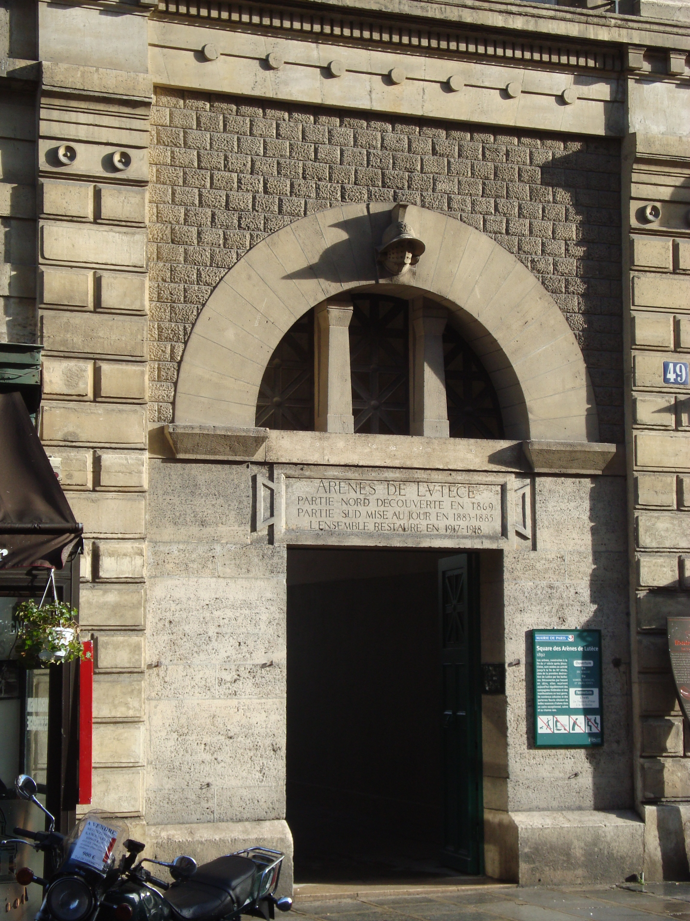 The entrance of the Arènes de Lutèce at 49 rue Monge in Paris